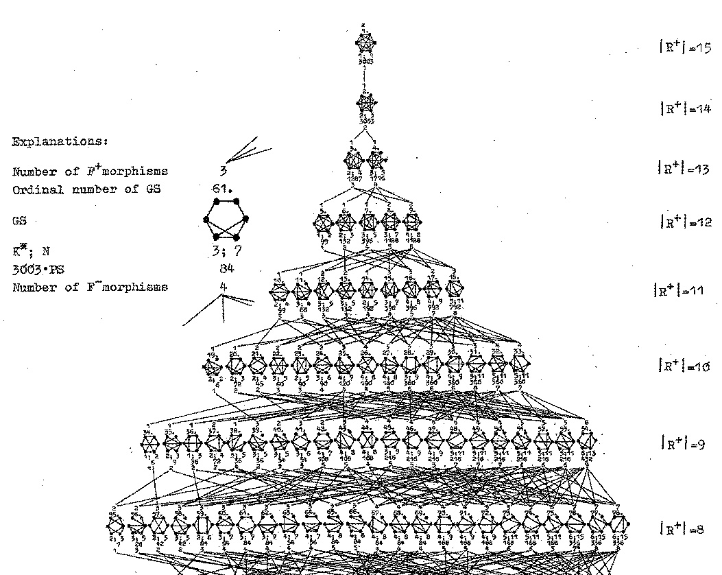 Example for semiotics of the structure